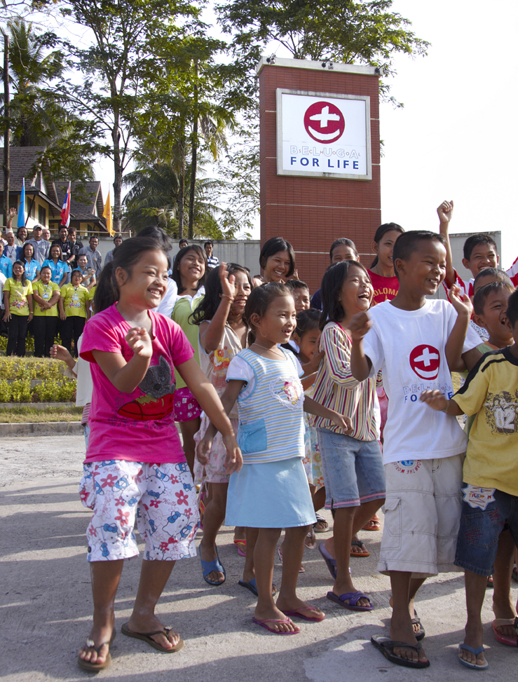 Children of the Beluga School for Life laughing and running in front of the entrance of the Beluga School for Life in Na Nai, Phang Nga, Thailand